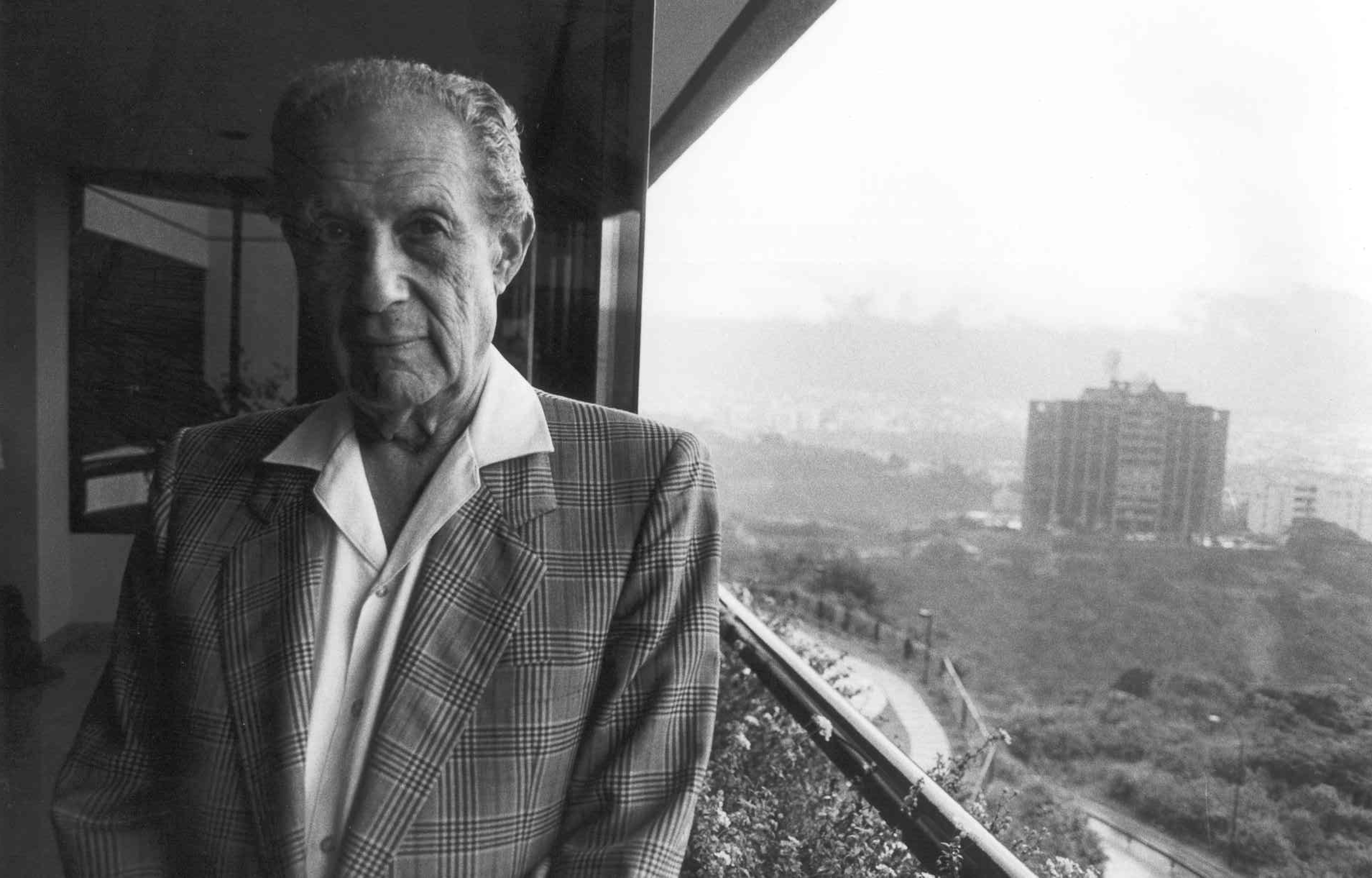 Juan Liscano, poeta, escritor y editor venezolano. Author: Alejandro Toro Camacho, Premio Nacional de Fotografía 1994. Upload: --Fev 15:30, 29 June 2007 (UTC), with license of the author. Author's